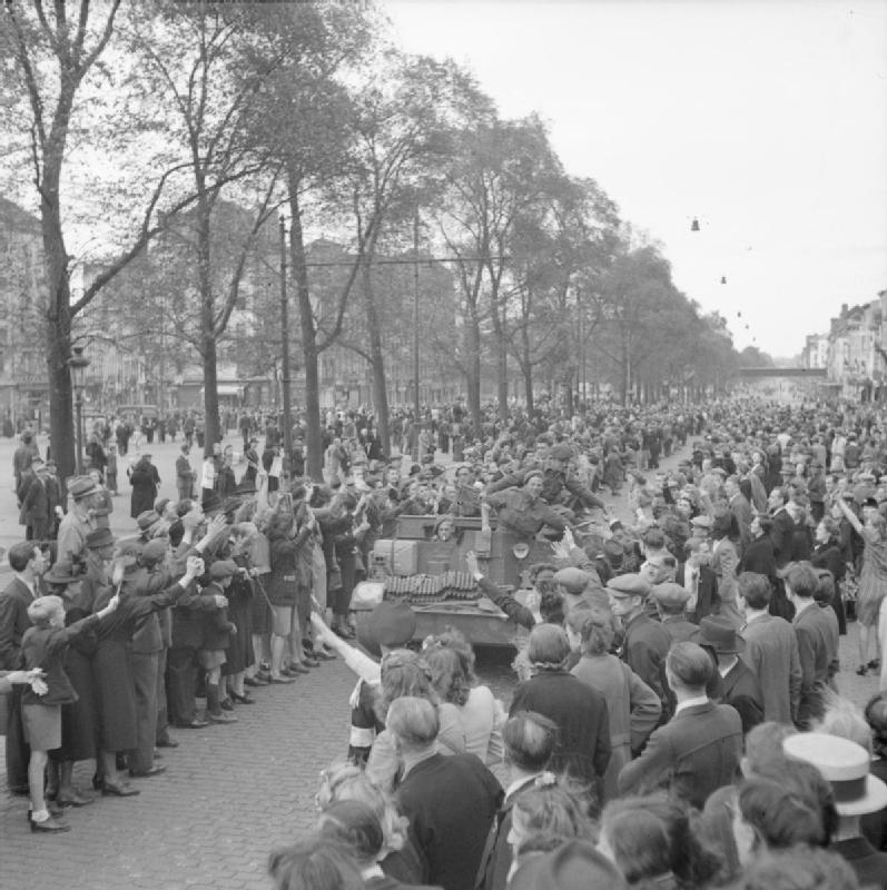 The British Army in North-west Europe 1944-45 Scenes of jubilation as British troops liberate Brussels, 4 September 1944. A carrier crewed by Free Belgian troops is welcomed by cheering civilians.